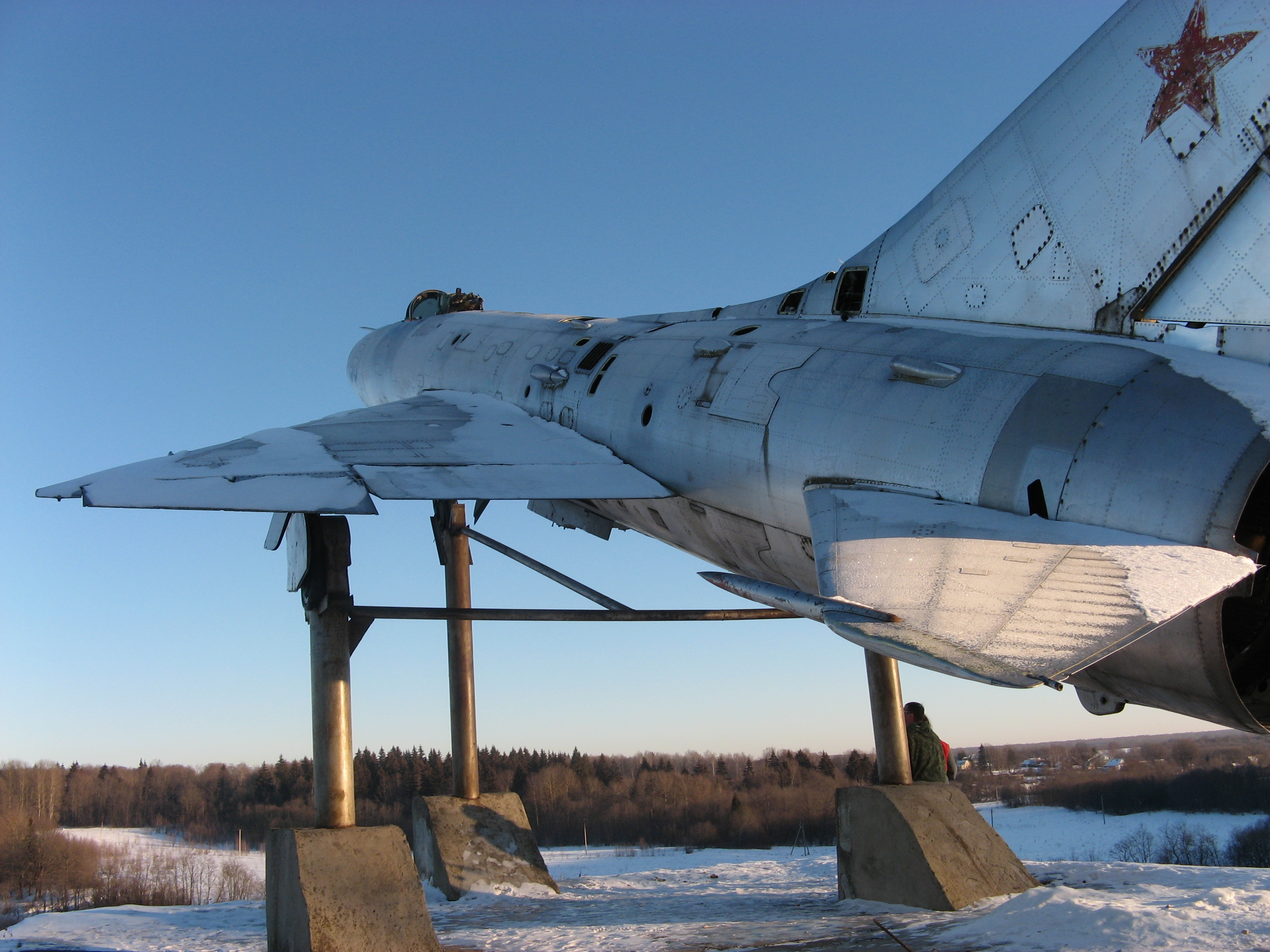 Old Soviet Karmanovo fighter plane in the Gagarin District in the Smolensk Oblast